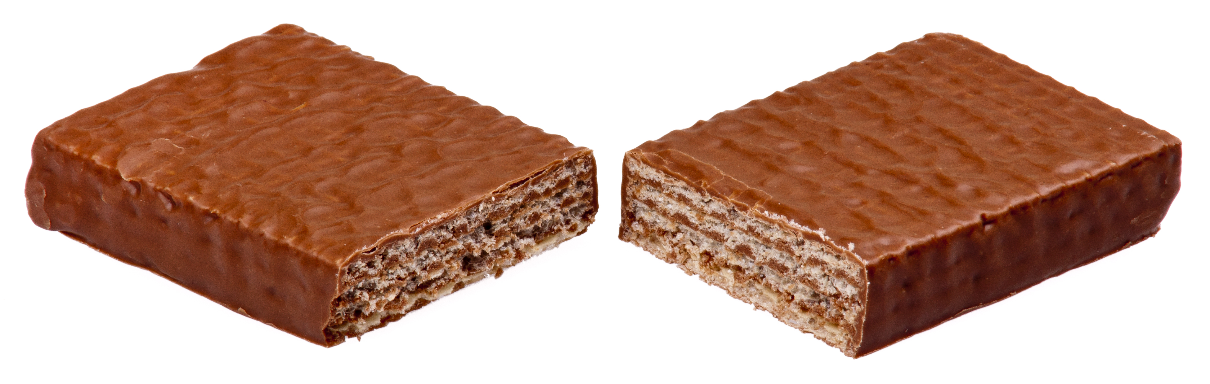 A milk chocolate and hazelnut Prince Polo candy bar that has been split. Made by Olza and Kraft.